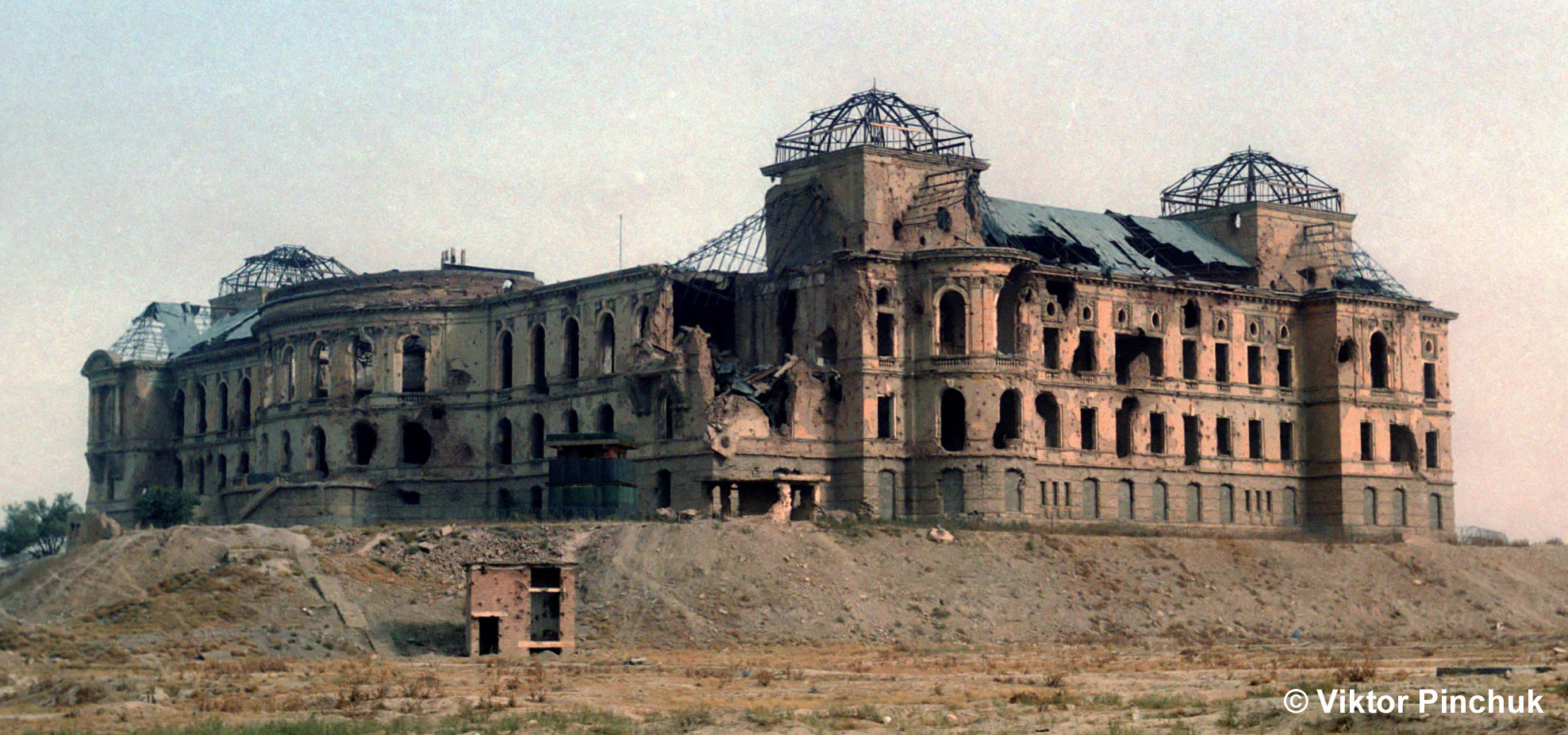 Afghanistan, 2008